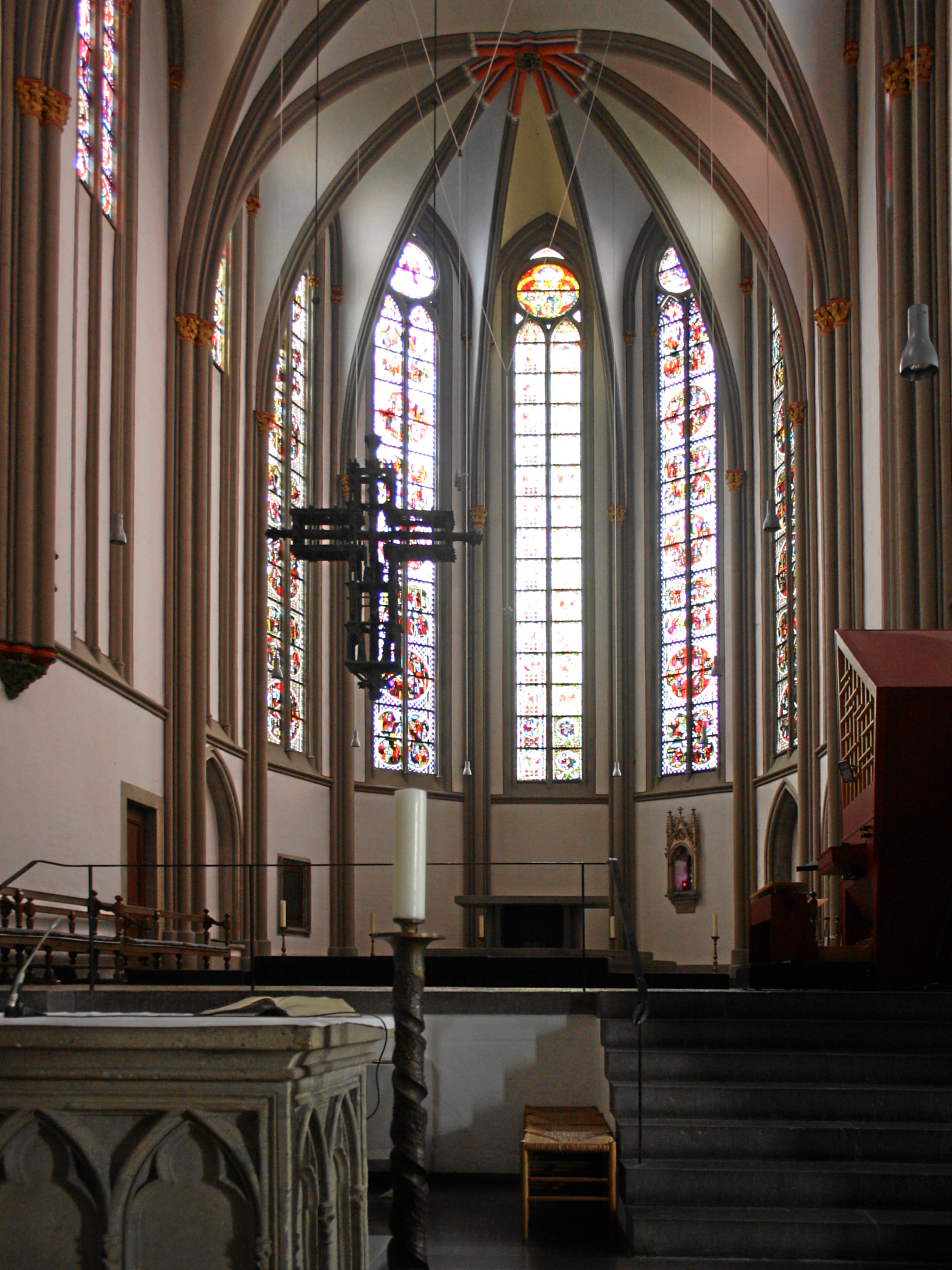 Mönchengladbach, Germany. Roman-catholic church St. Vitus, choir.